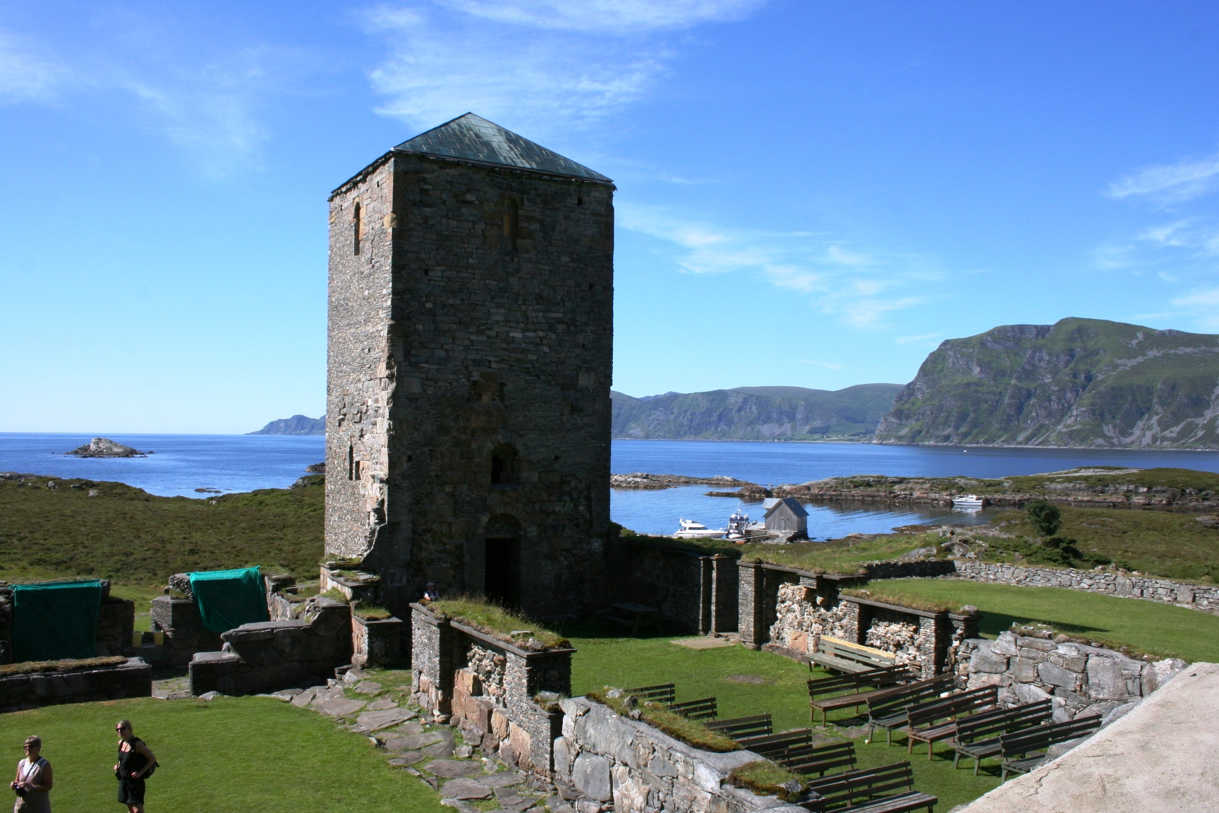 Selje abbey, Albanus church